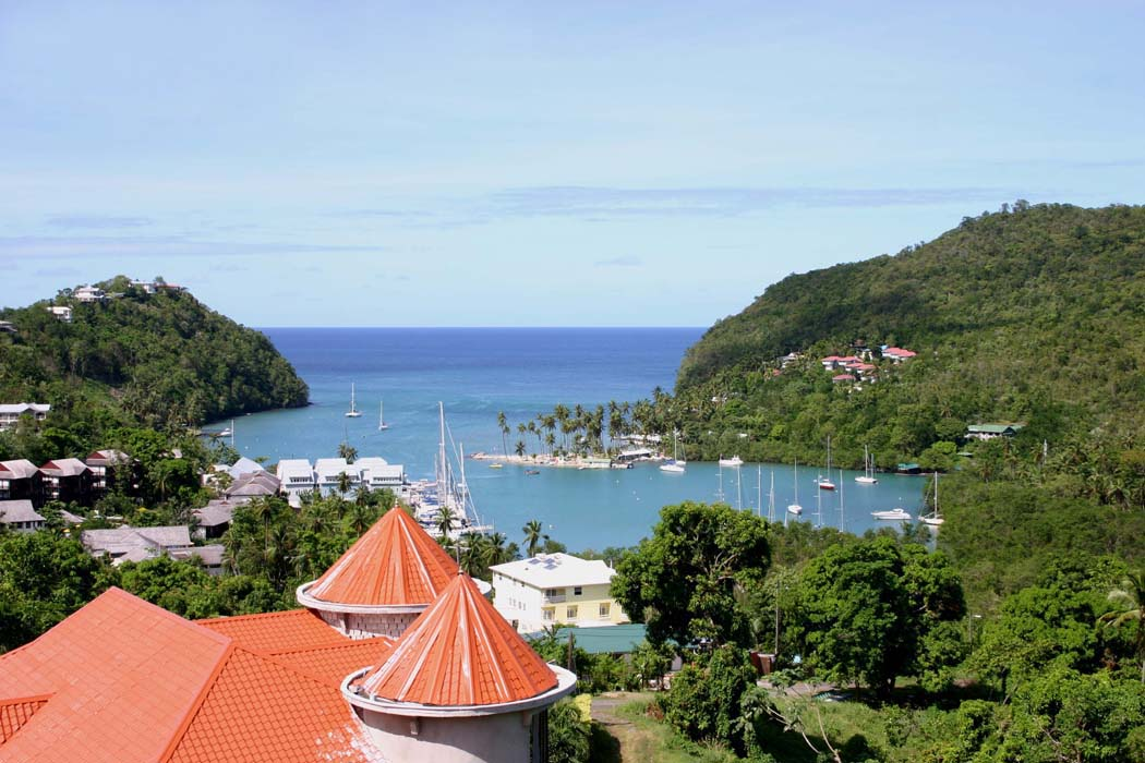 View of Marigot Bay, taken in November 2010